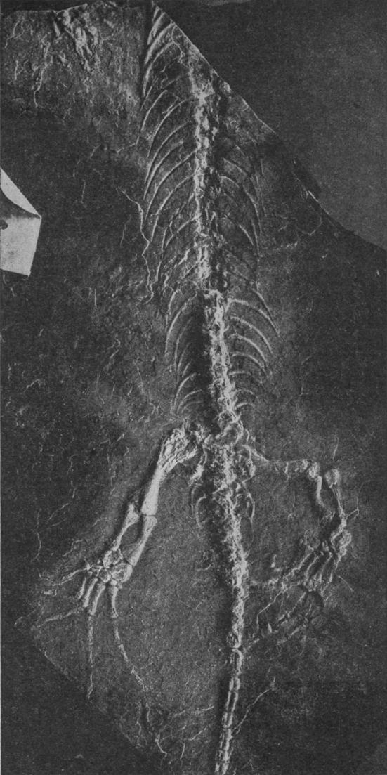 Photograph of a specimen of Tuditanus punctulatus from "'The oldest known reptile.' - Isodectes punctulatus Cope" by S.W. Williston (The Journal of Geology 16 (5): 395-400). Williston referred to it as Isodectes punctulatus.